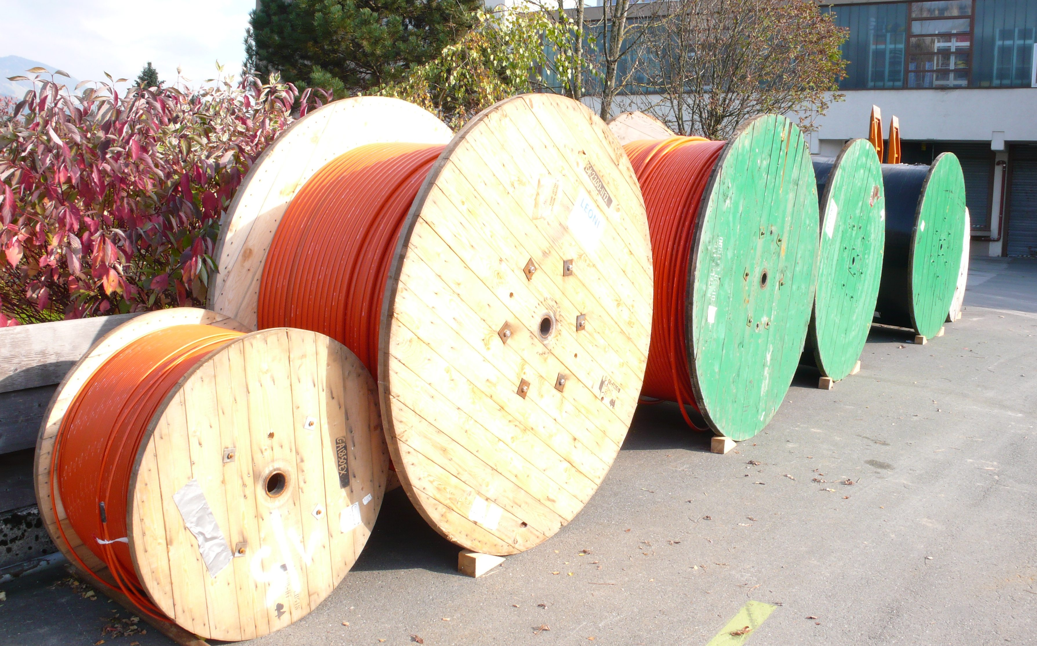 Fibreglass piping before installation for heating St. Johann in Tyrolia.